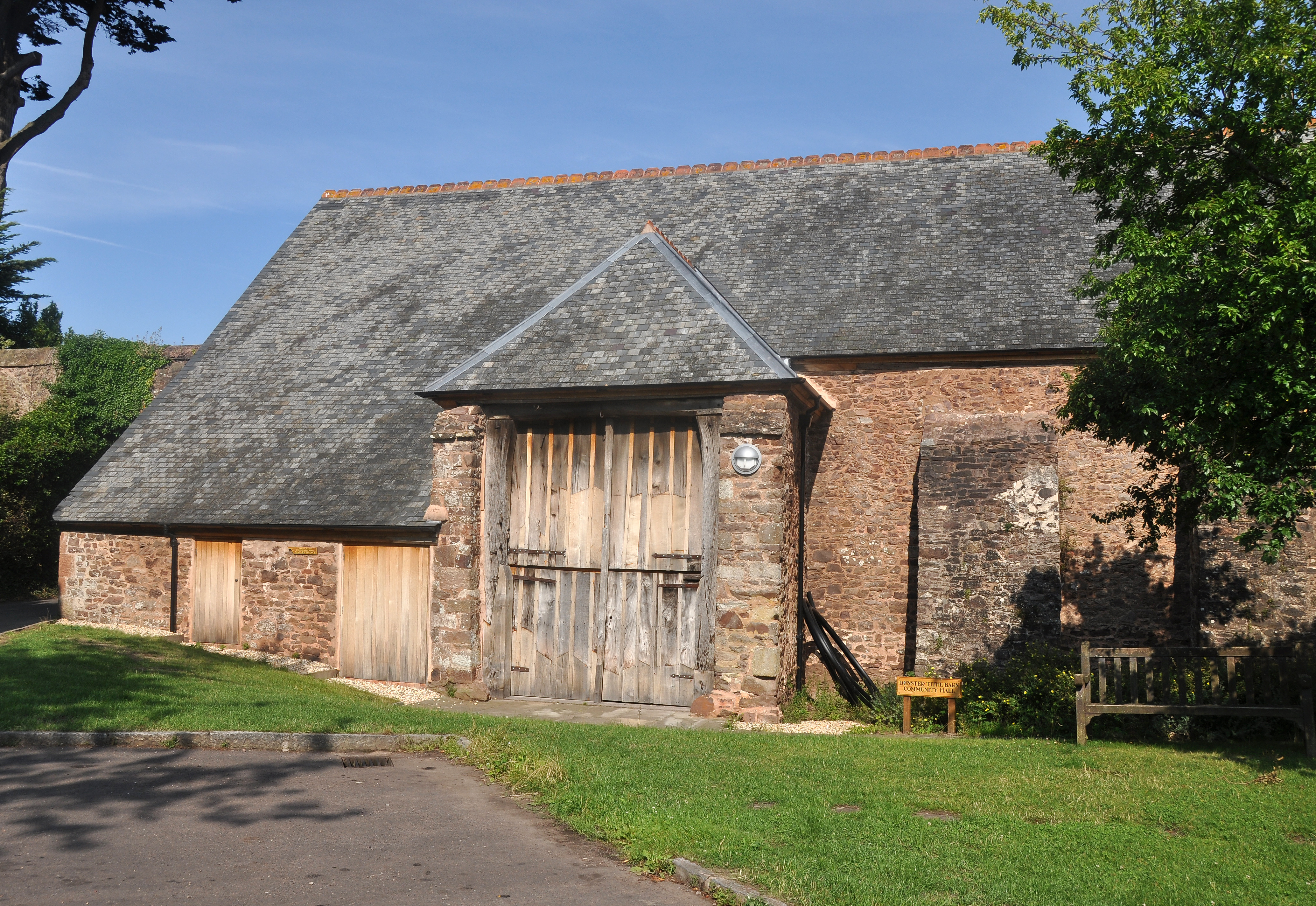 The tithe barn, near the priory, in Dunster, Somerset